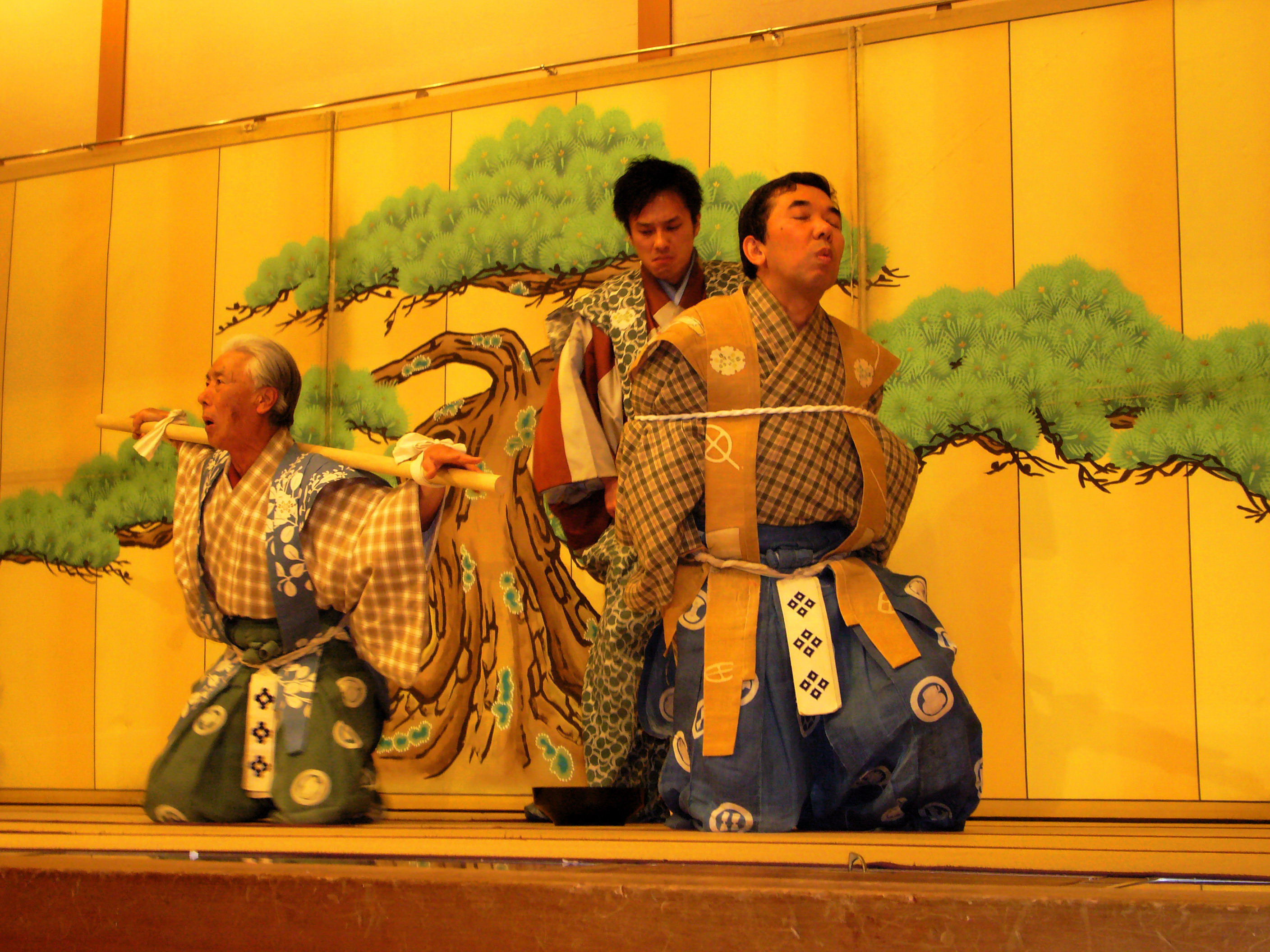 祇園角狂言表演 Kyogen Performance at Goin Corner